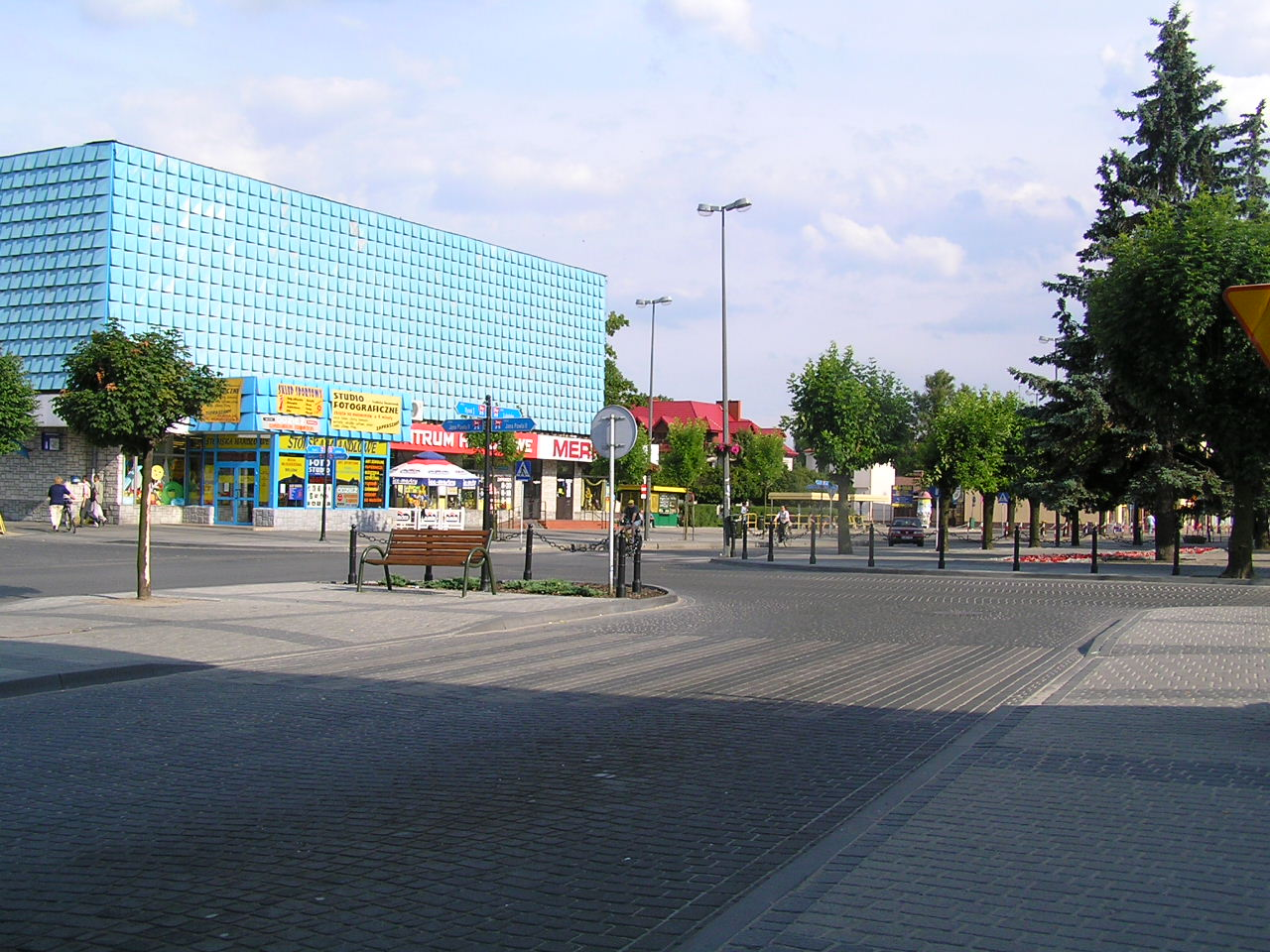 autor: Yarek shalom 14:00, 23 October 2006 (UTC)yarek shalom